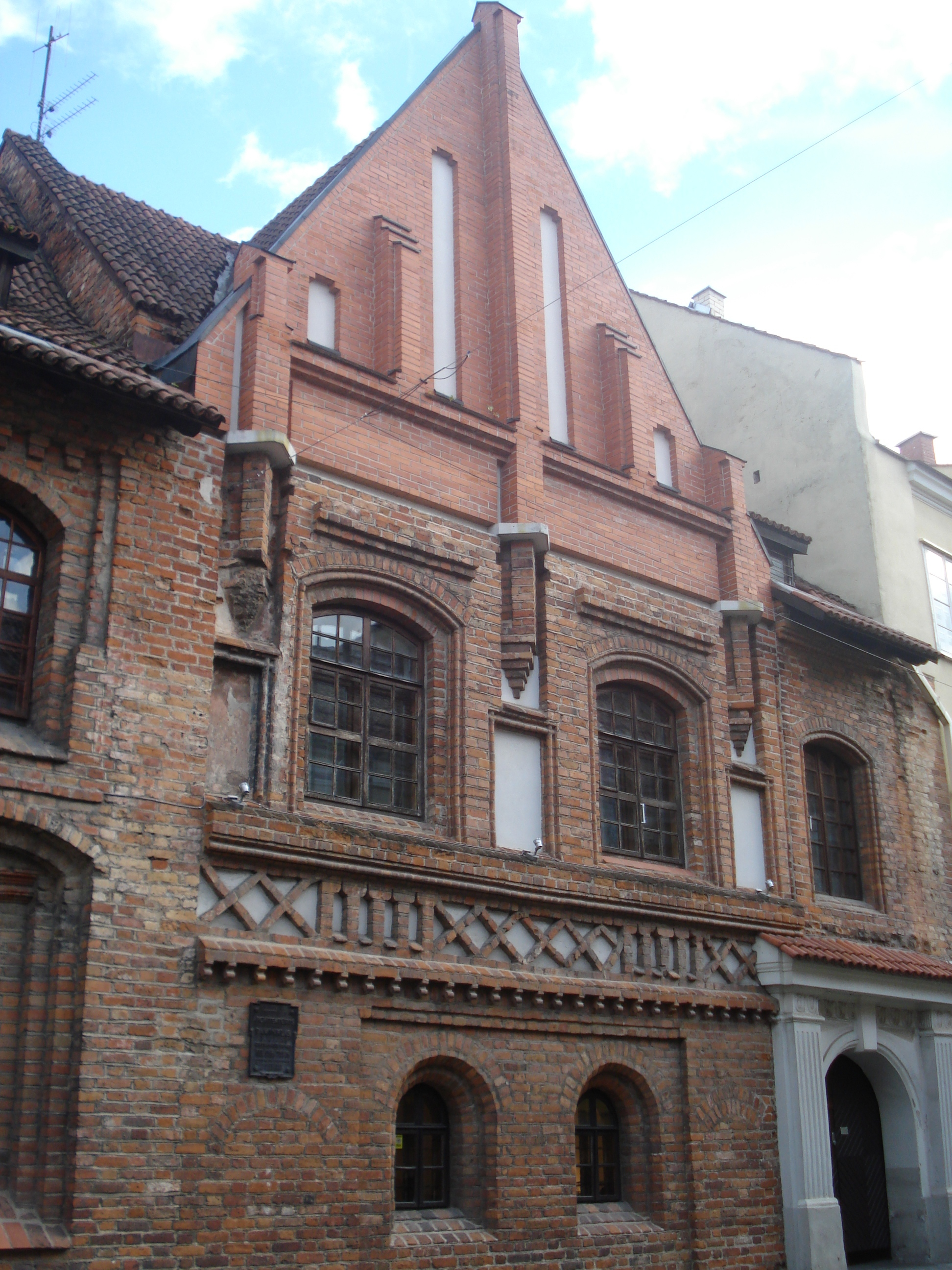 Gothic house in Pilies street in Vilnius (Pilies g. 12). 16 century